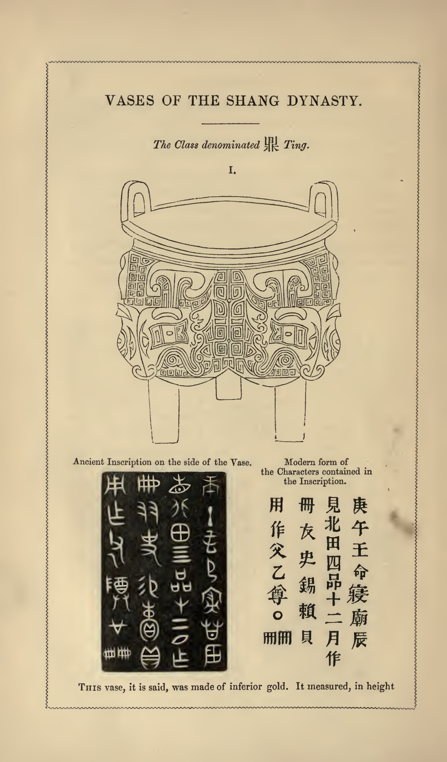 Page from PP Thoms Vases of the Shang Dynasty